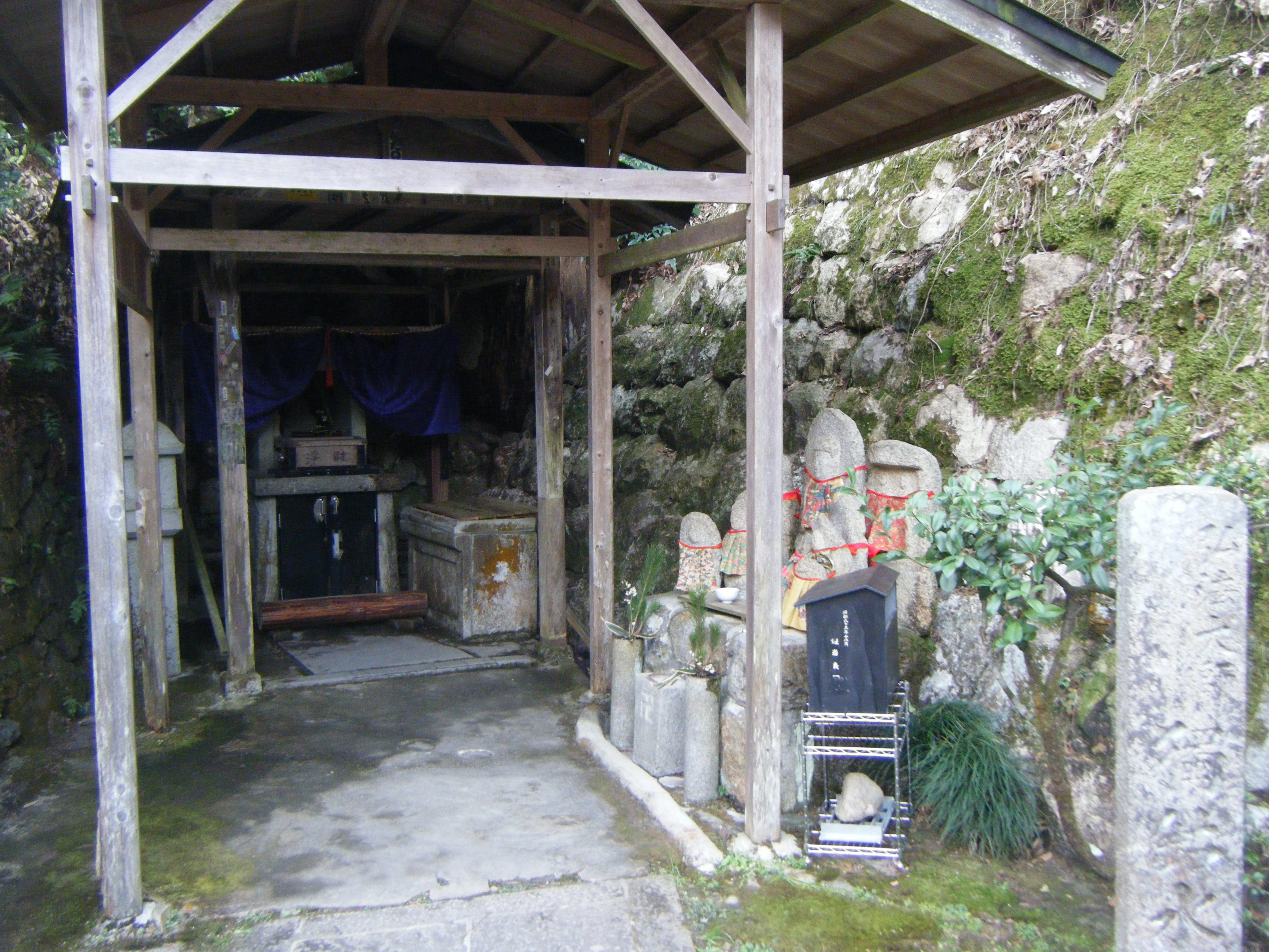 Sennyu-ji in Higashiyama-ku, Kyoto, Kyoto prefecture, Japan. Photos ware taken in Shichifukujin-Festival (Seven Lucky Gods Festival).